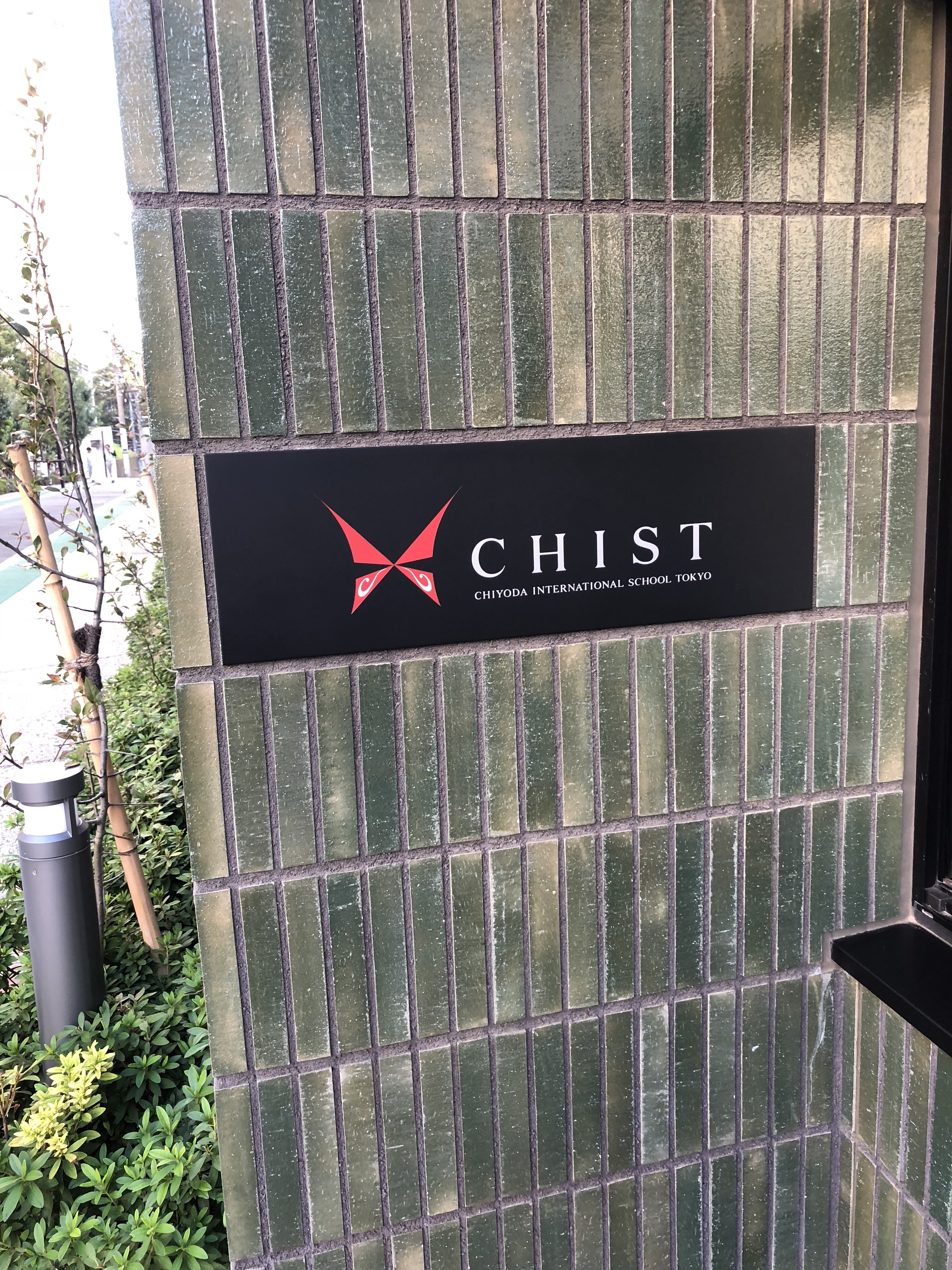 School front entrance